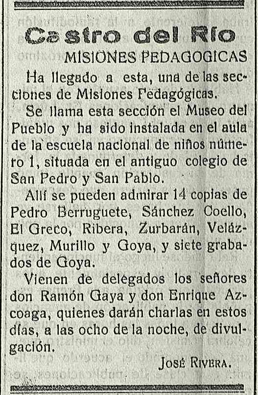 Institución Libre de Enseñanza. Announcement (printed side) by the Town Hall of Castro del Río, Córdoba, Spain, for the visit of the Museum of the village in 1935.